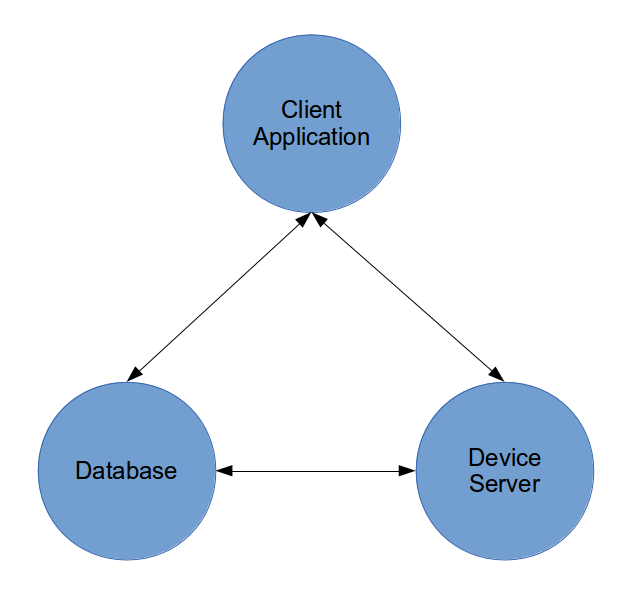 Simplest architecture of TANGO